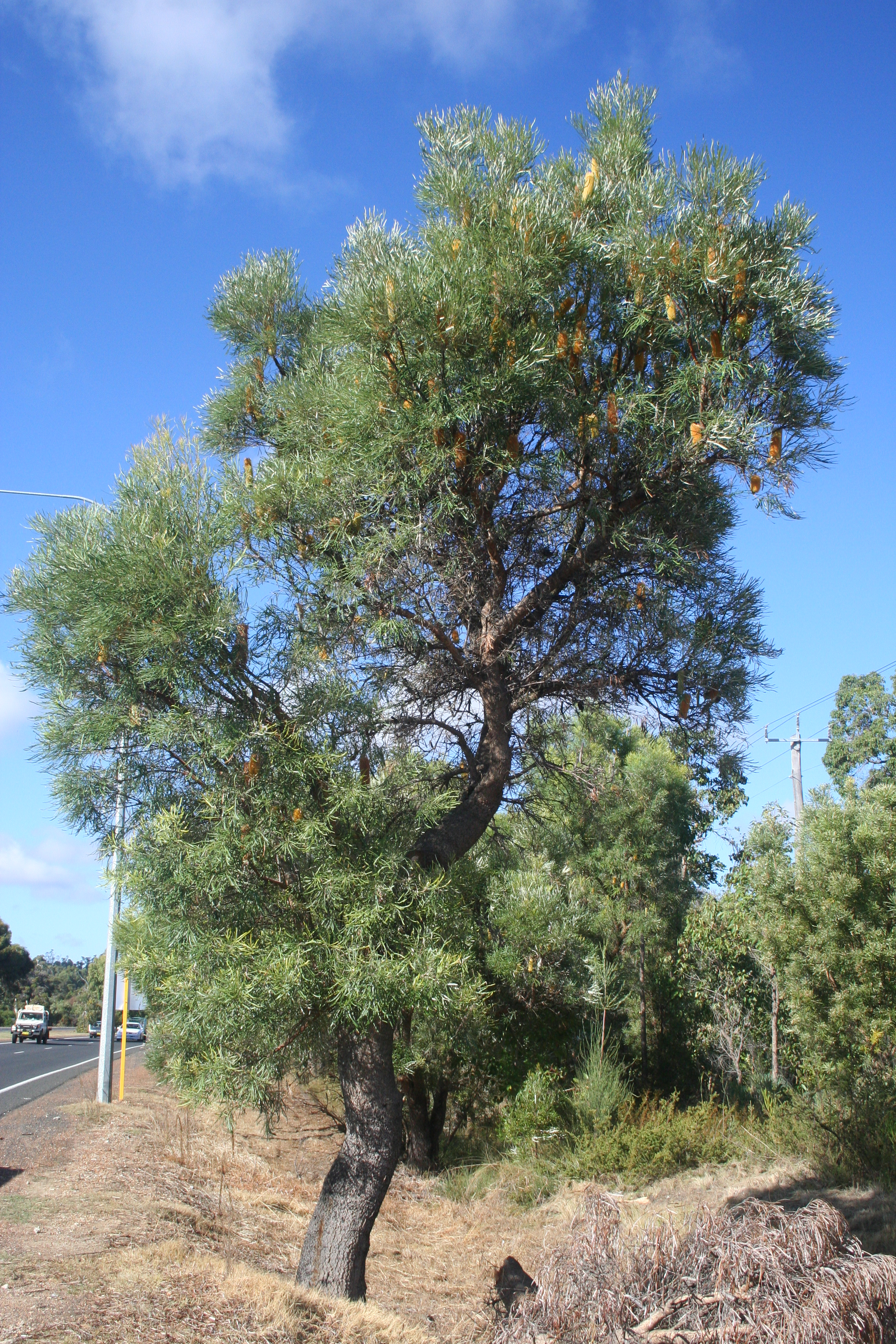 Banksia littoralis, roadside southwest of Bunbury